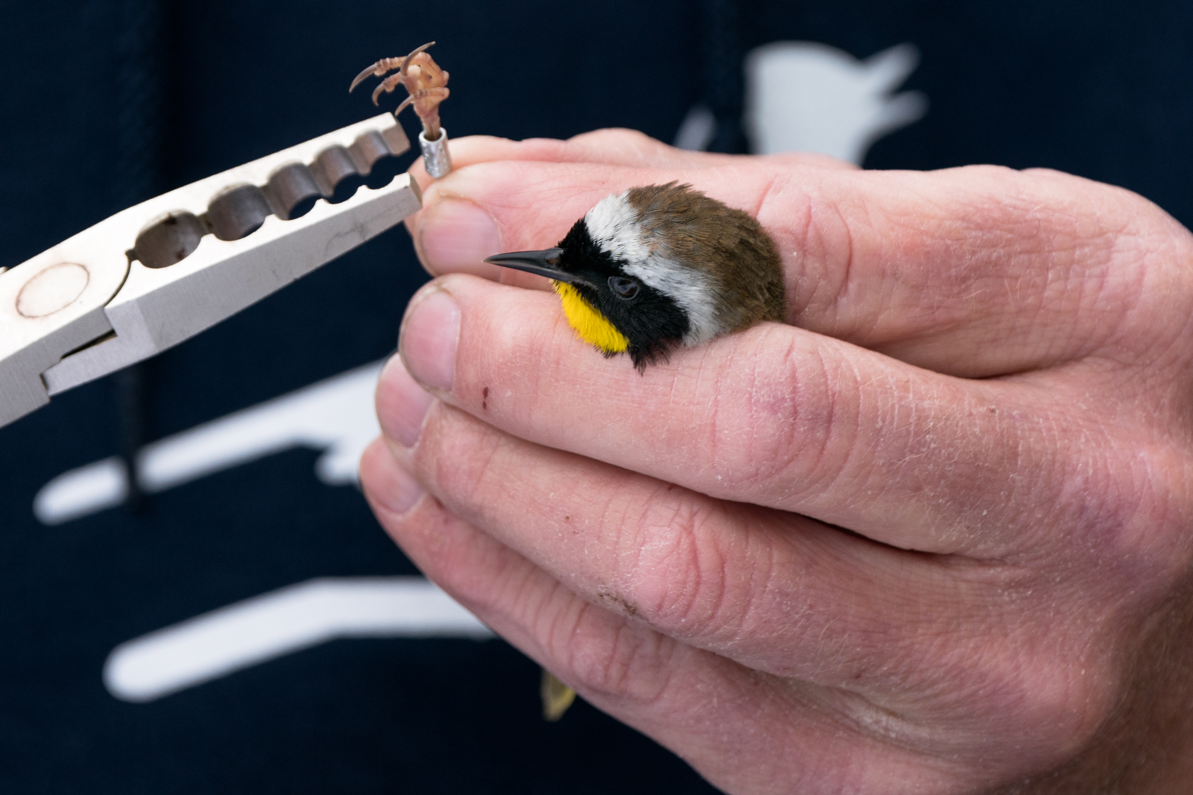 A researcher uses banding pliers to attach a band to the leg of a Common Yellowthroat at a bird banding station at Murphy-Hanrehan Park Reserve in Savage, Minnesota. The bird was captured in a mist net.